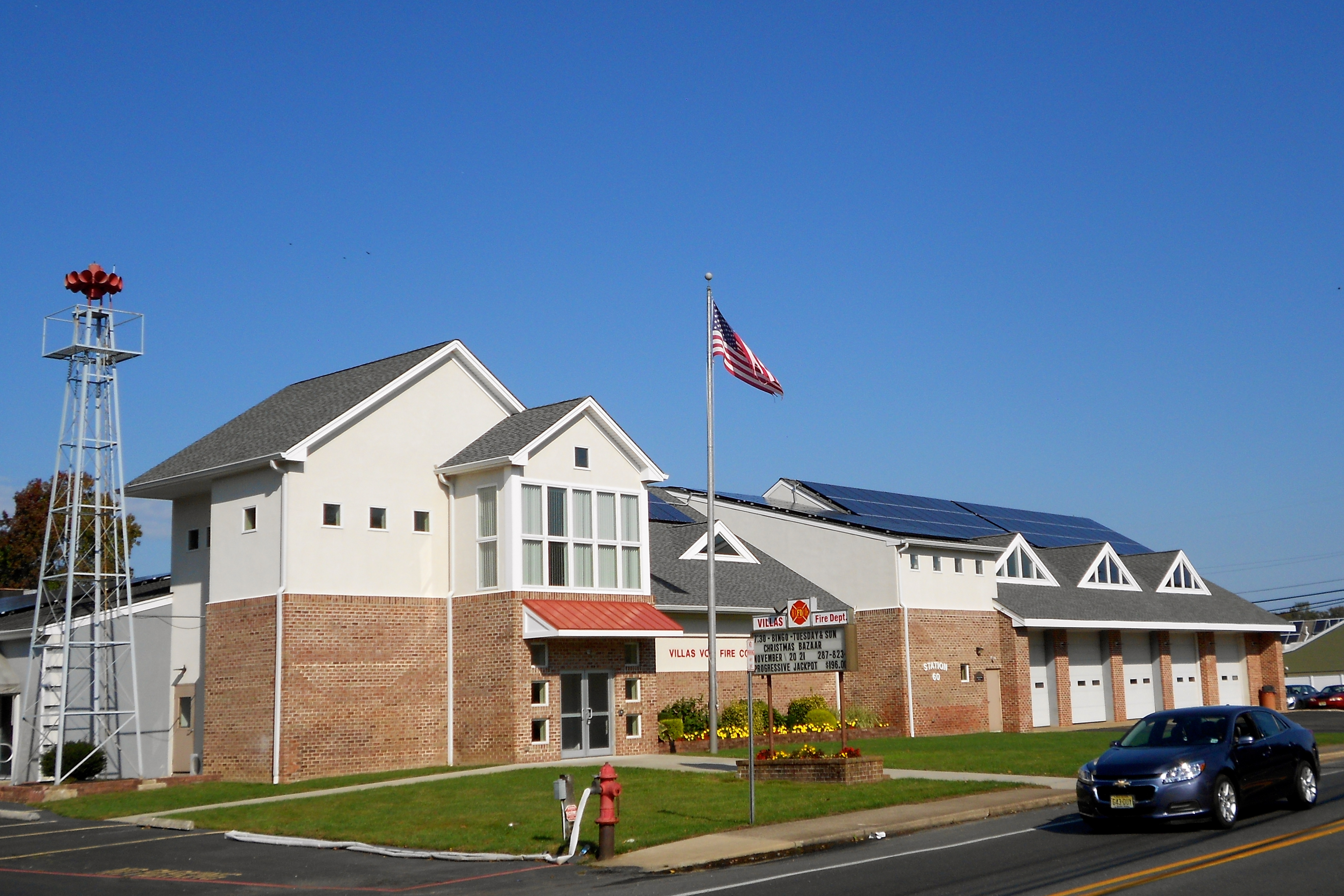 Villas Fire Department in Villas, Lower Township, Cape May County, New Jersey